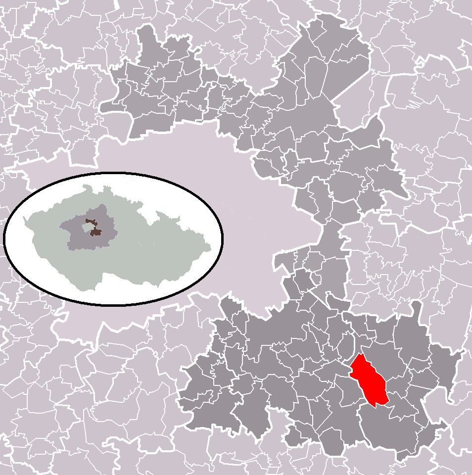 Location of Černé Voděrady municipality within Prague-East District and administrative area of Říčany as a Municipality with Extended Competence.